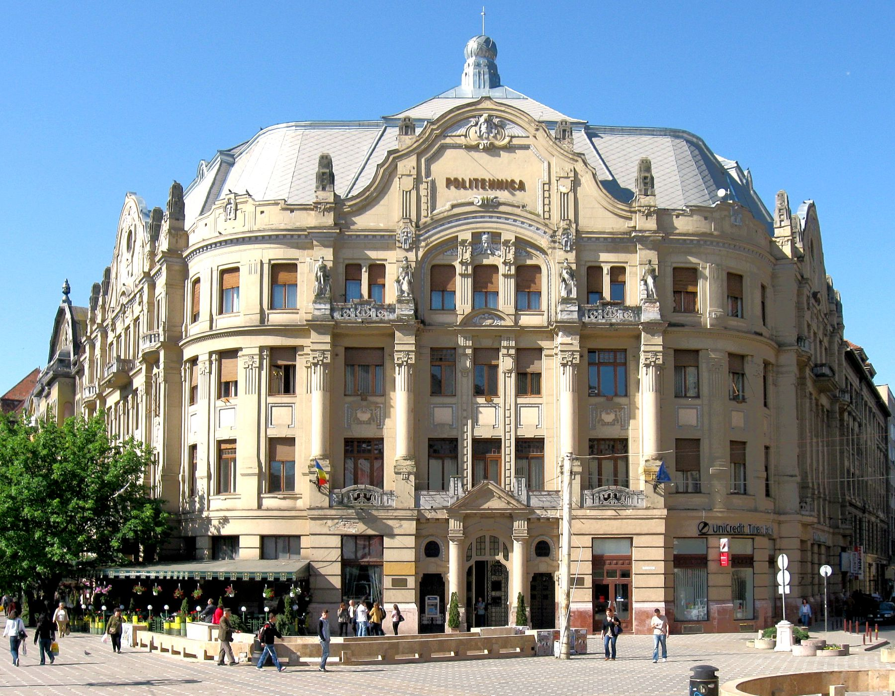 Lloyd Palace, seat of the Politehnica University Timişoara, Romania.